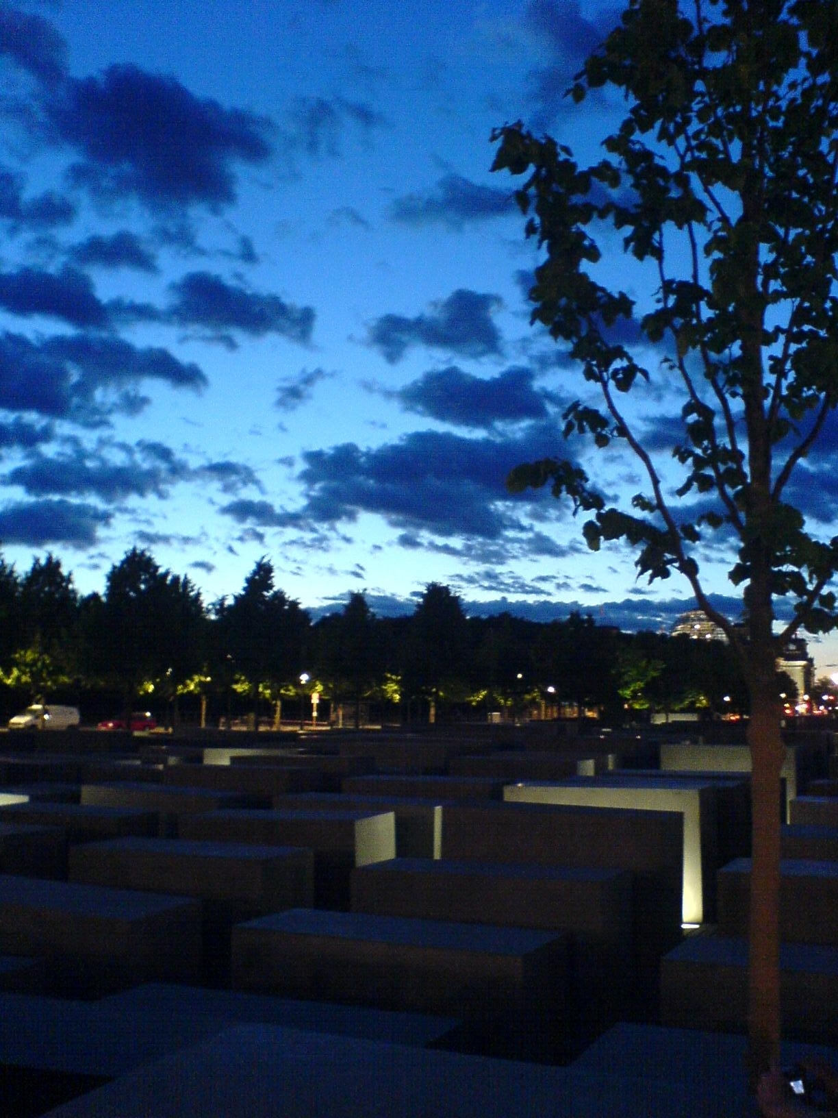 Memorial to the Murdered Jews of Europe (Berlin, Germany)